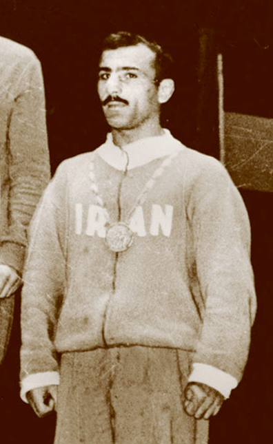 1960 Olympics, 52 kg Greco-Roman wrestling podium, Mohammad Paziraei